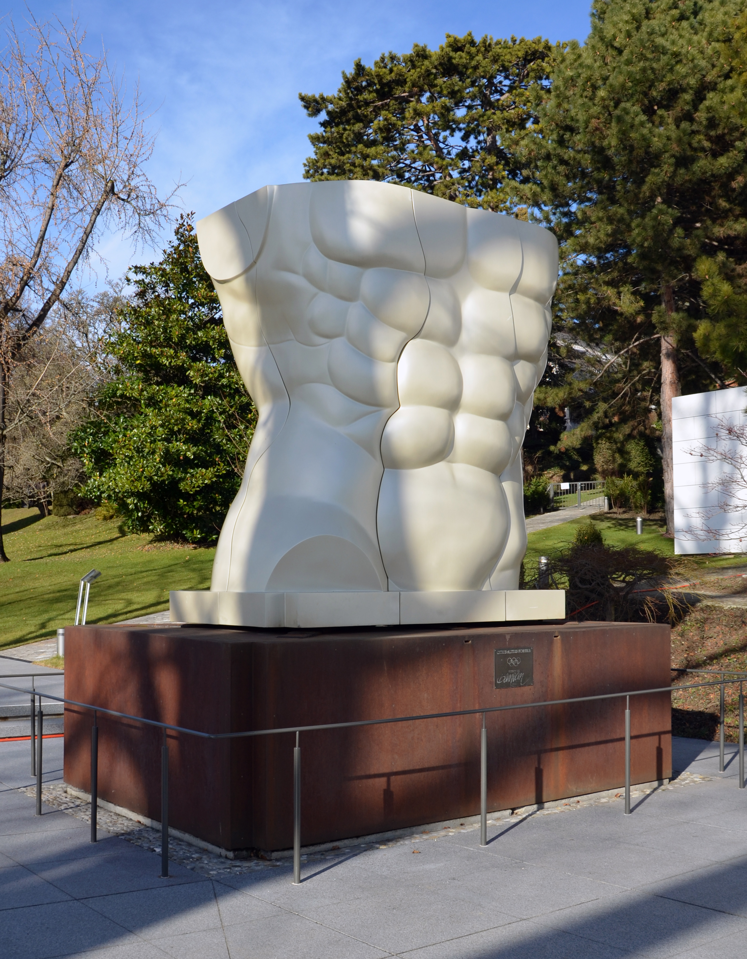 "Citius, Altius, Fortius" by spanish sculptor Miguel Berrocal, in front of the Olympic Museum in Lausanne (Switzerland)